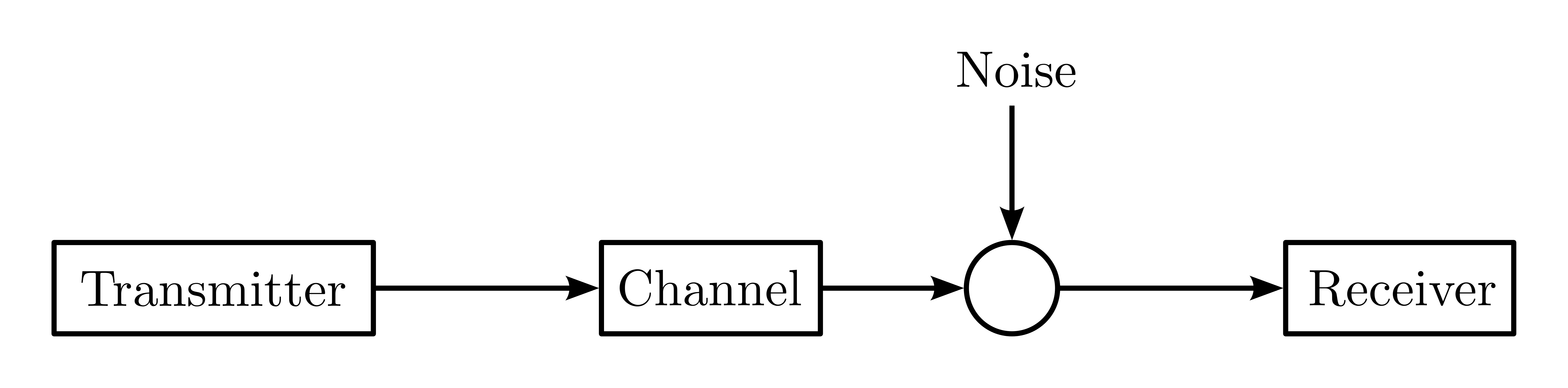 Communication-System-Diagram